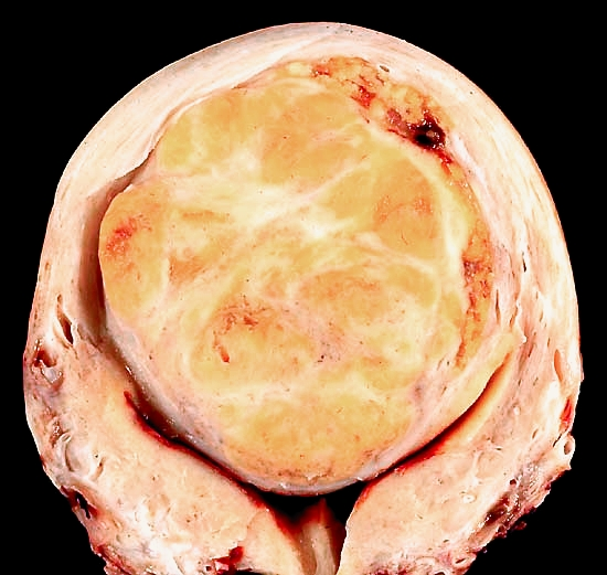 This hysterectomy specimen shows a large, solitary leiomyoma in the fundus, distoring the endometrial cavity into a Y shape by splaying and pressing it downwards. Because of its unusual appearance (solitary, bright yellow, and soft), I was worried about its being a leiomyosarcoma. All of the numerous sections I took, however, showed an utterly bland neoplasm with no mitotic activity. It does make a colorful subject for the camera. The photo was taken with a Nikon FE2 on Kodak Elite daylight film, ISO 100, with blue filter to compensate for the tungsten illumination. The specimen was formalin-fixed but later soaked in 70% alcohol to return some of the native coloration. Alcohol also helps to partially dehydrate the specimen, so that, after blotting the cut surface right before taking the photo, essentially all the distracting highlights can be eliminated.